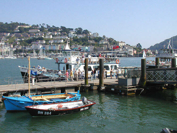 Kingswear, looking across the River Dart from Dartmouth. Taken by Adrian Pingstone in July 2003 and placed in the public domain.